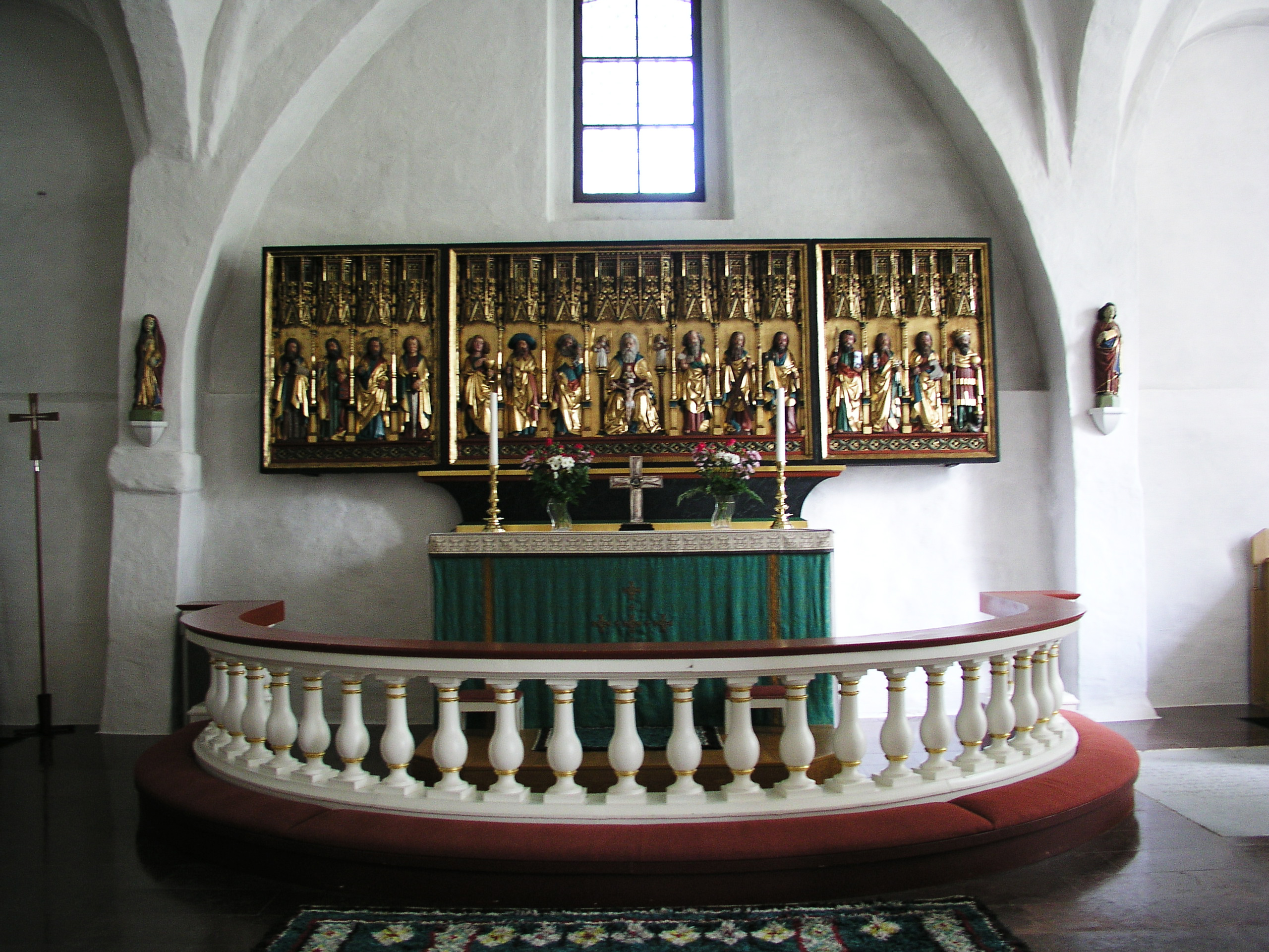 Drothems kyrka, Söderköping. Altar. The picture was taken the 30 of June 2003 by Håkan Svensson (Xauxa).